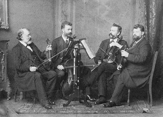 The Joseph Joachim Quartet. From left to right: Joseph Joachim, Robert Hausmann, Emanuel Wirth, Carl Halir.